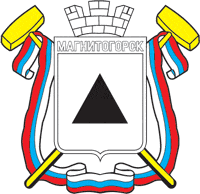 Magnitogorsk (Chelyabinsk oblast), coat of atms (1993)